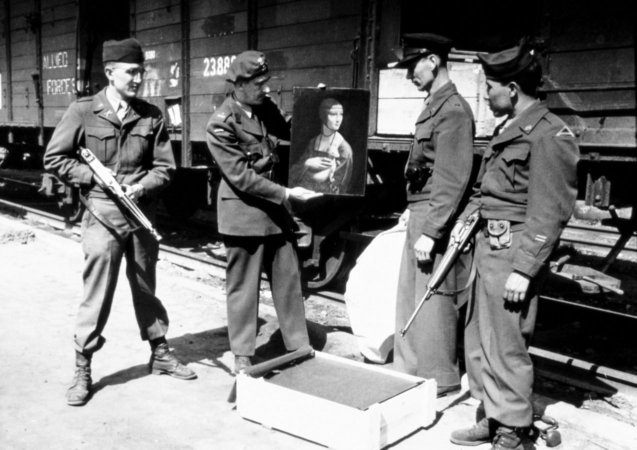 Monuments Man Lt. Frank P. Albright, Polish Liaison Officer Maj. Karol Estreicher, Monuments Man Capt. Everett Parker Lesley, and Pfc. Joe D. Espinosa, guard with the 34th Field Artillery Battalion, pose with Leonard da Vinci's Lady with an Ermine upon its return to Poland in April 1946.